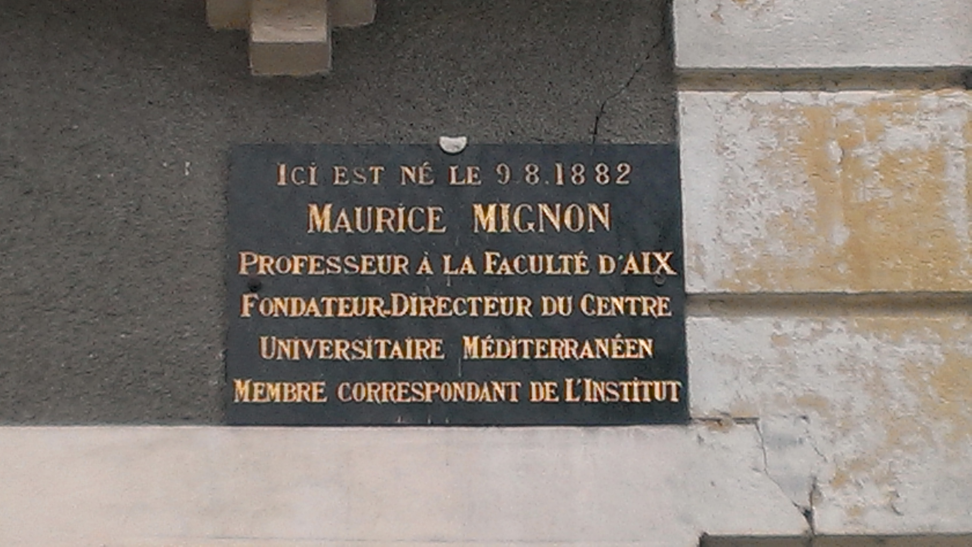 Prémery, France, birthplace of Maurice Mignon